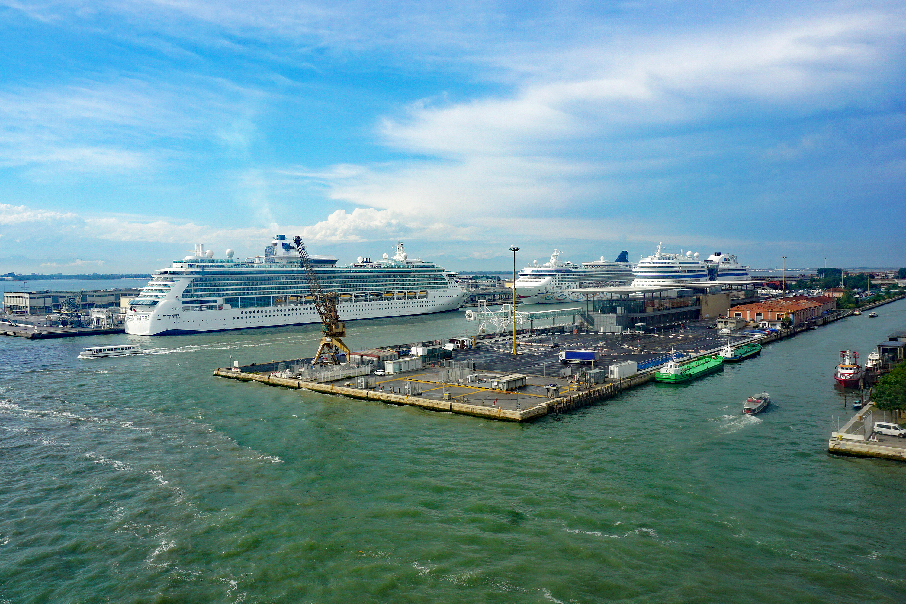 Brilliance of the Seas and other cruise ships docked at Venezia Terminal Passeggeri (Port of Venice, Italy)